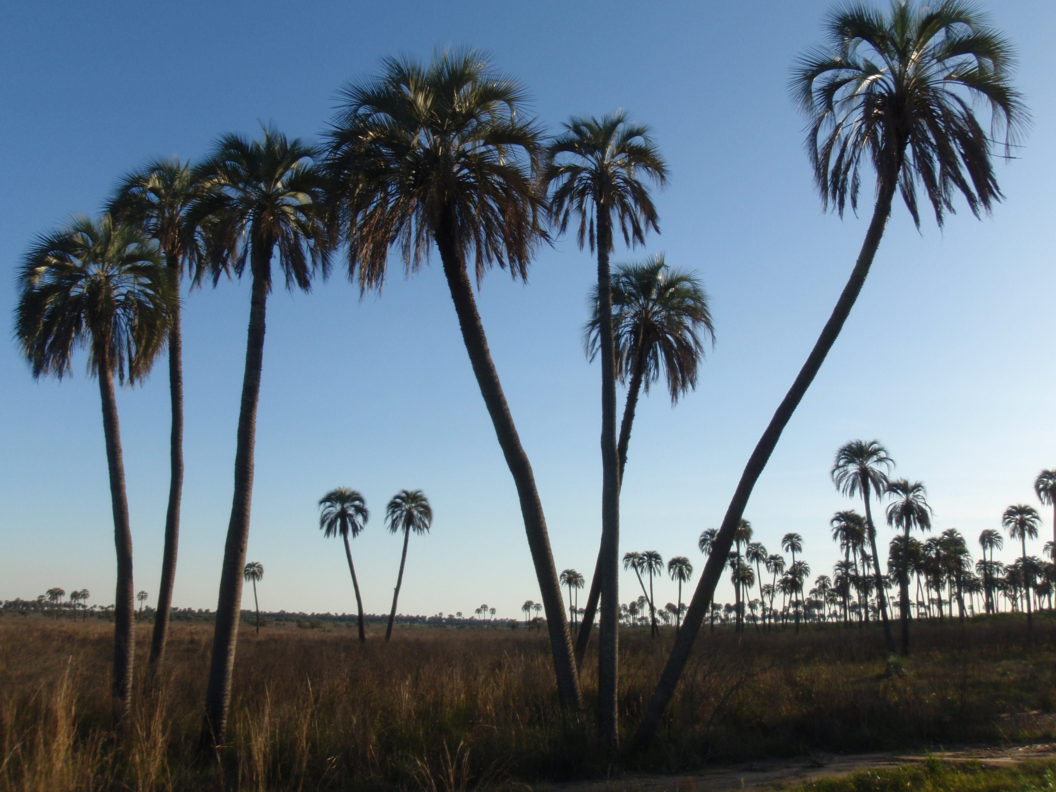 Parque Nacional El Palmar, Argentina